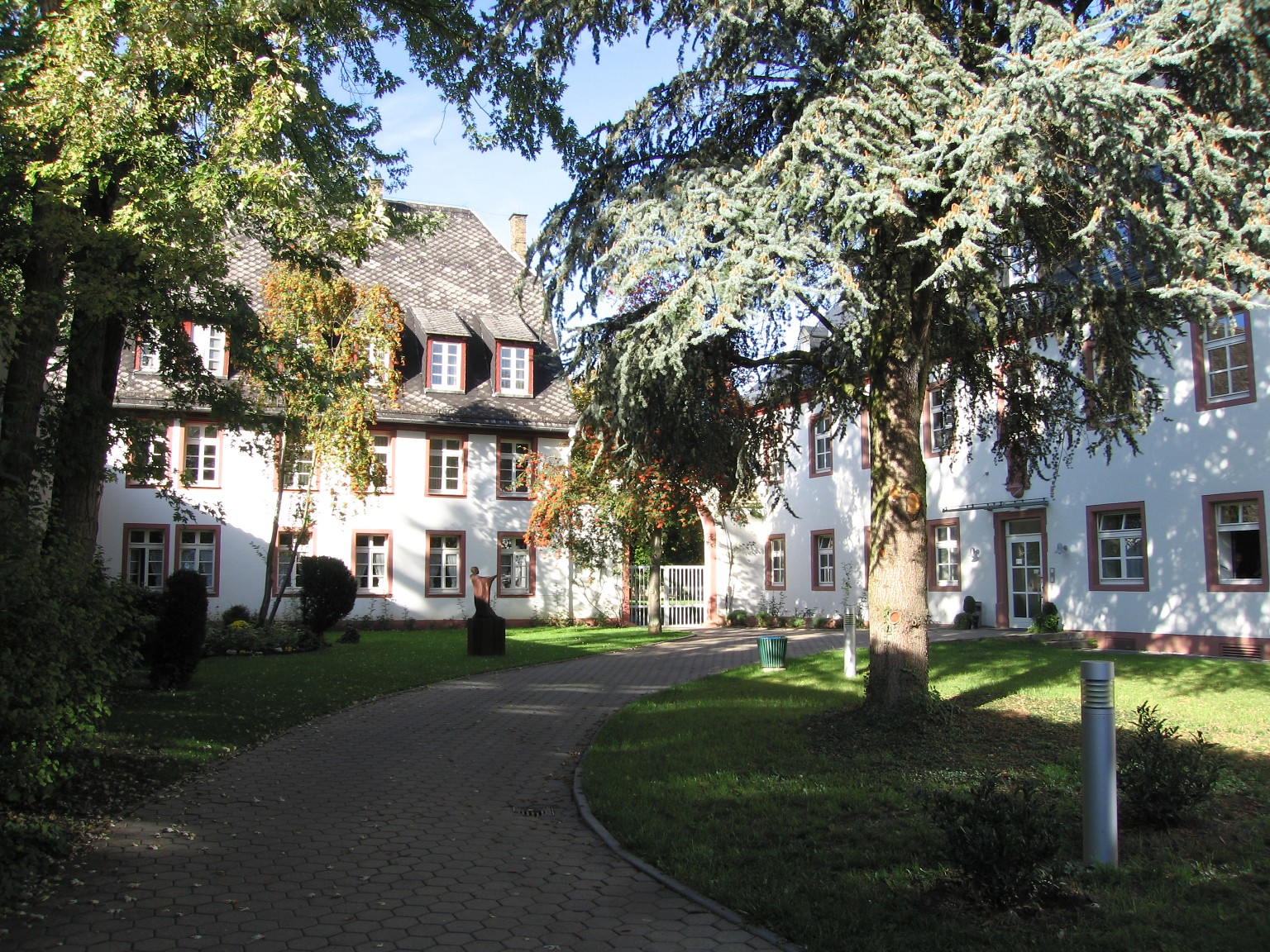 Former monastary Mainz-Drais, Germany.